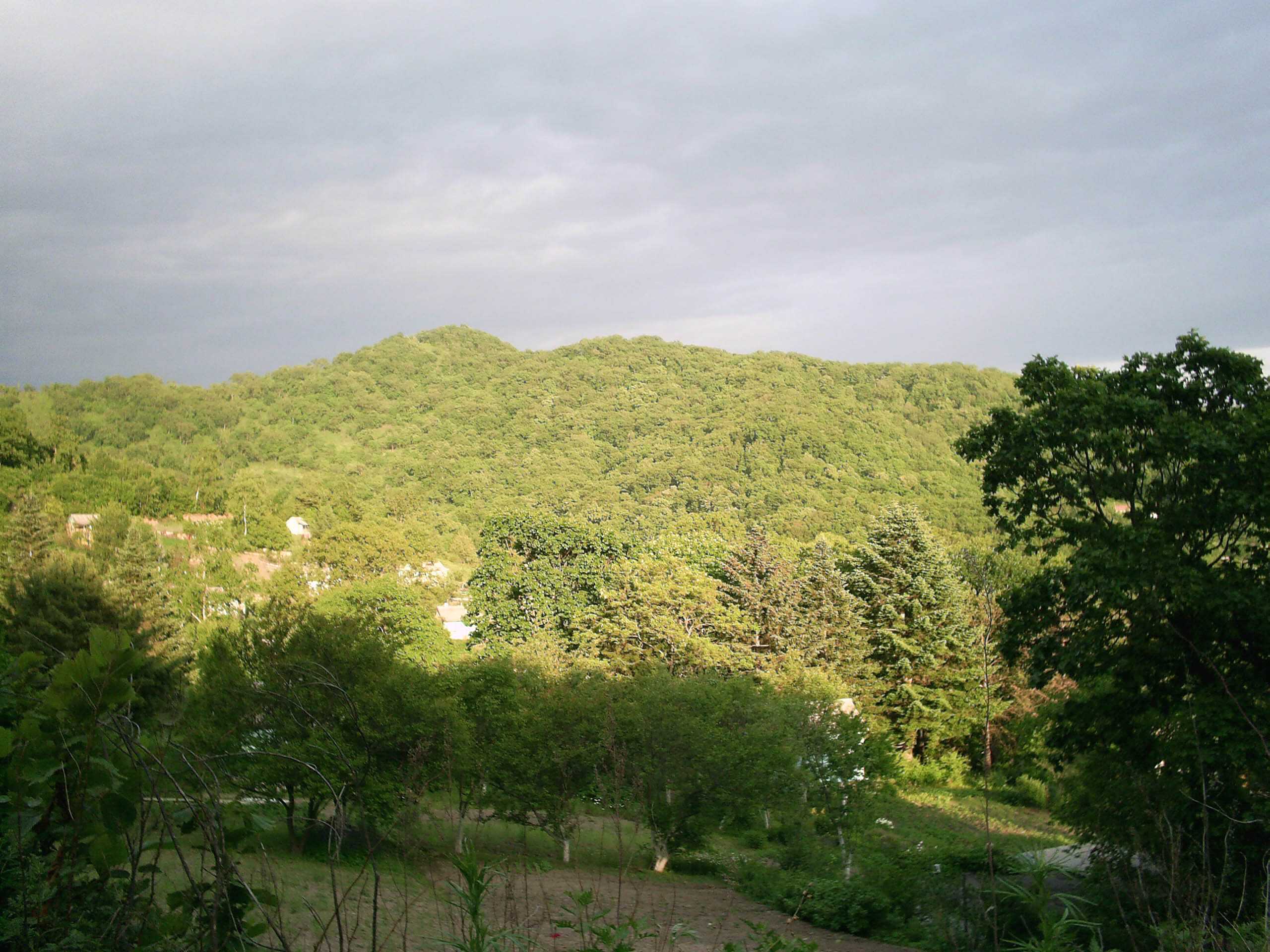 Sopka (Hill) in south Sikhote-Alin, June 2008